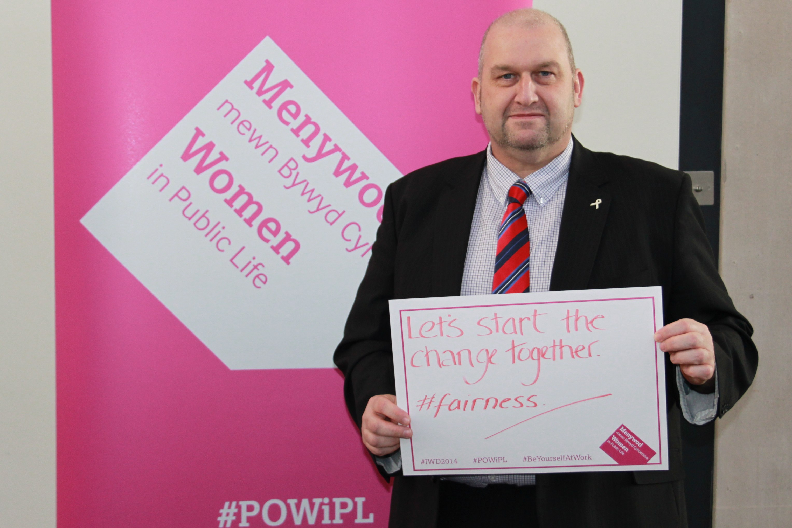 Carl Sargeant #beyourselfatwork 2014